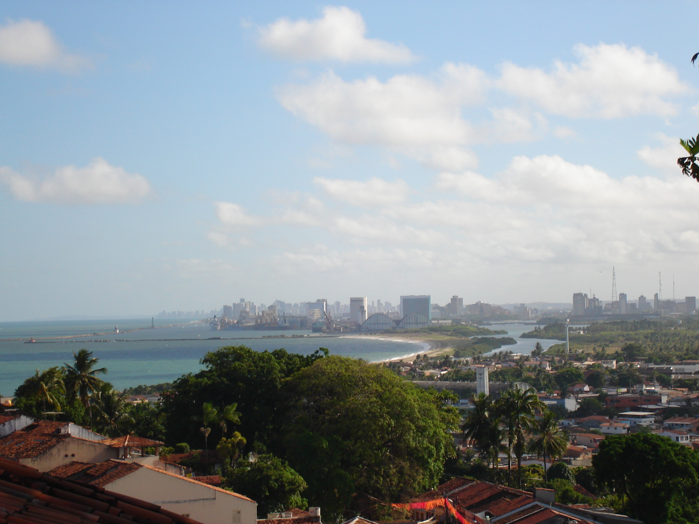 This picture is taken by me from Alto da Sé in Olinda. The view is towards Recife.